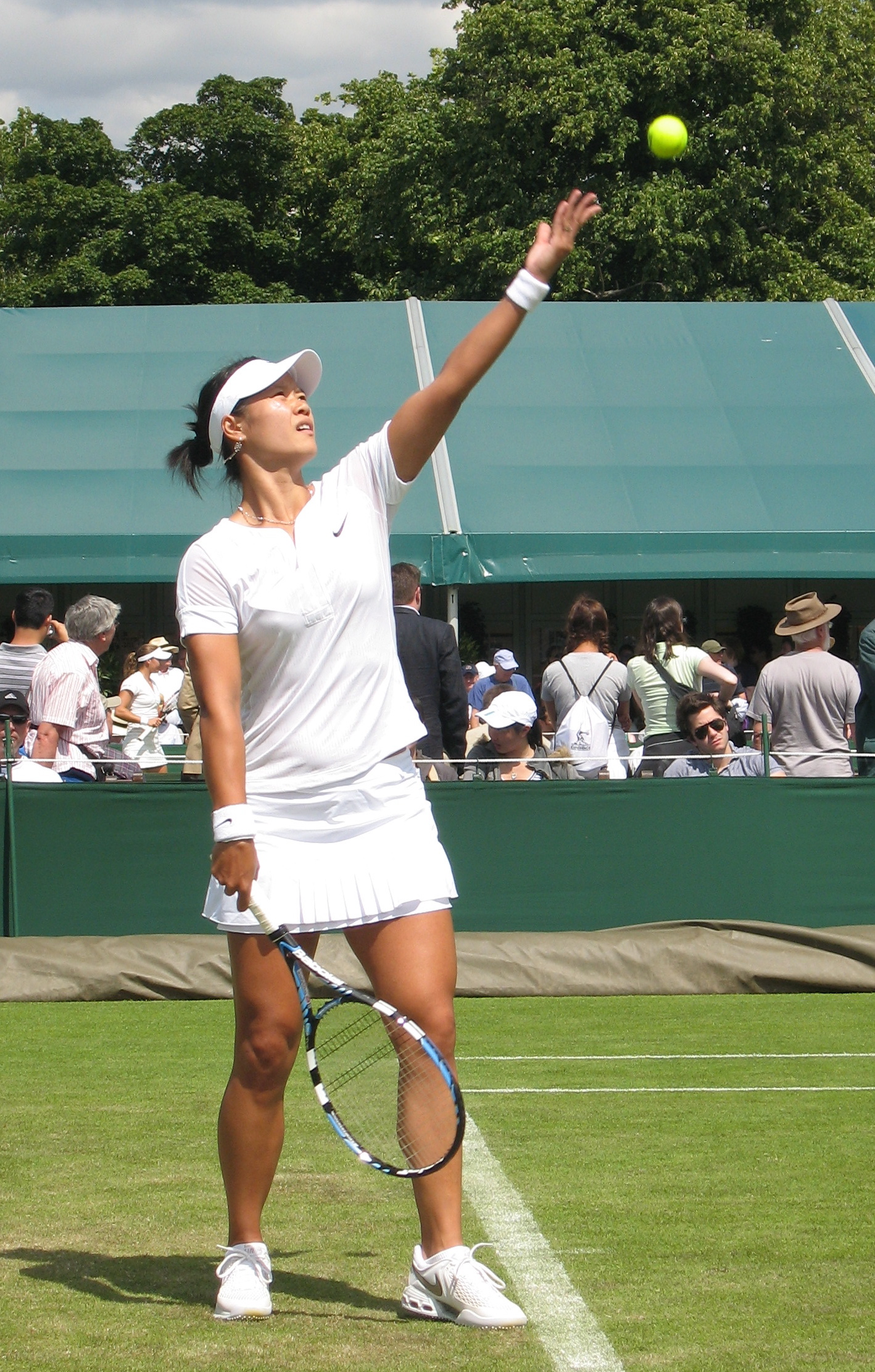 Li Na serving at Wimbledon 2008 1st round against Anastasia Rodionova.